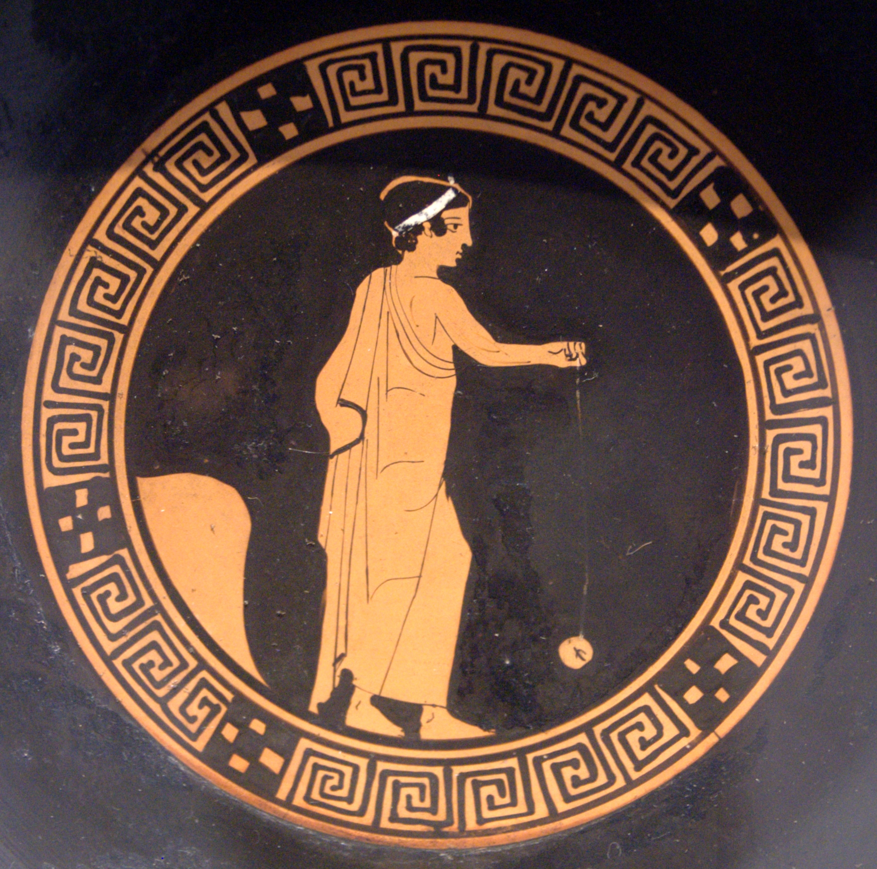 Boy playing yo-yo. Tondo of an Attic red-figure kylix, ca. 440 BC.